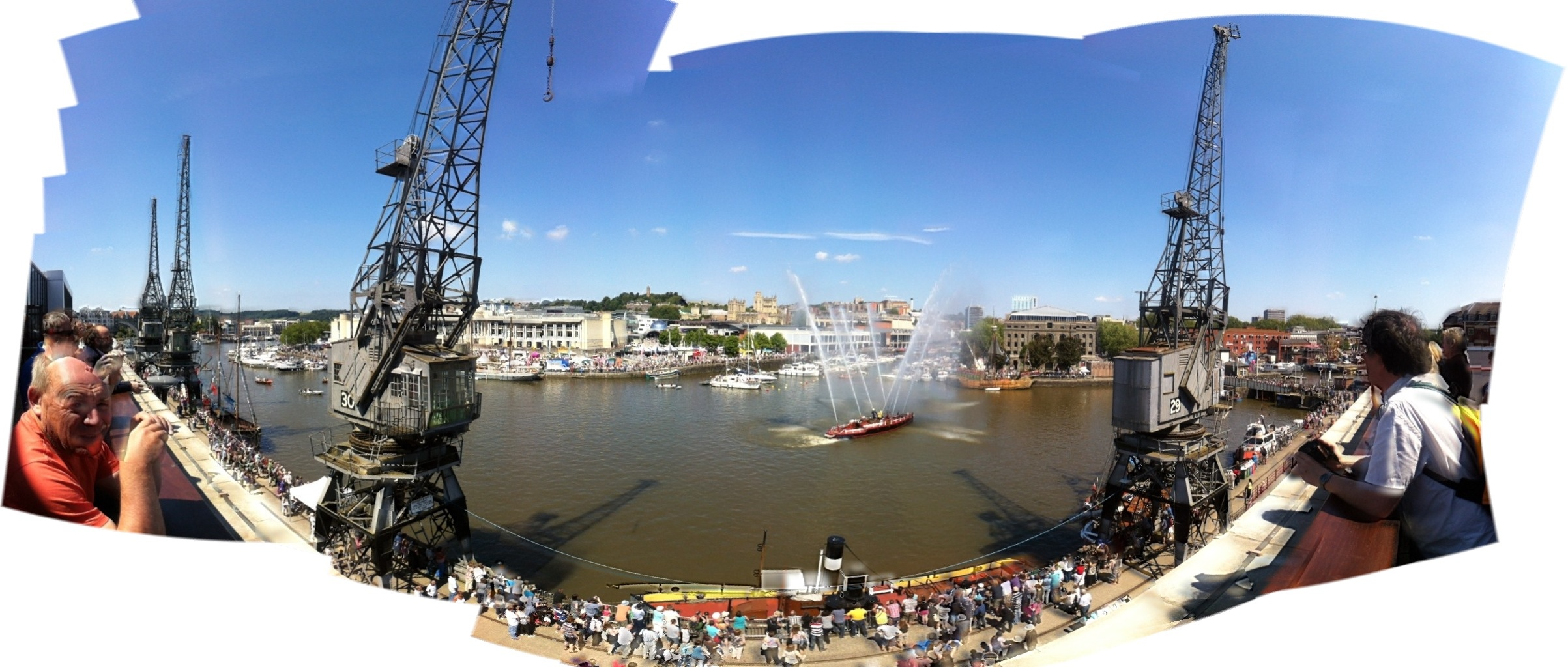 The Pyronaut on display at the Bristol Harbourside festival